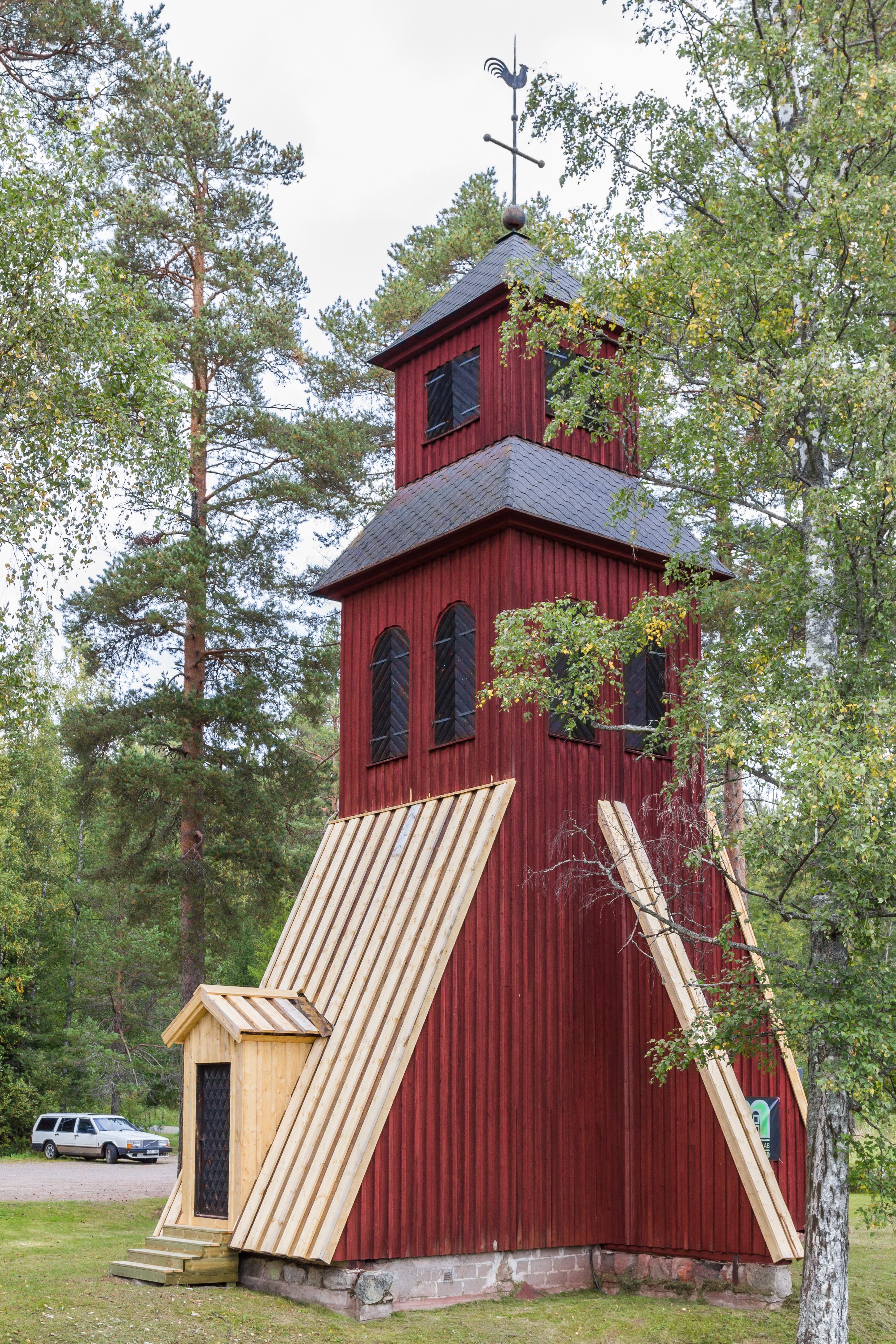 Bell tower of church Sågmyra kyrka in Sågmyra, Falun Municipality, Dalarna County, Sweden.